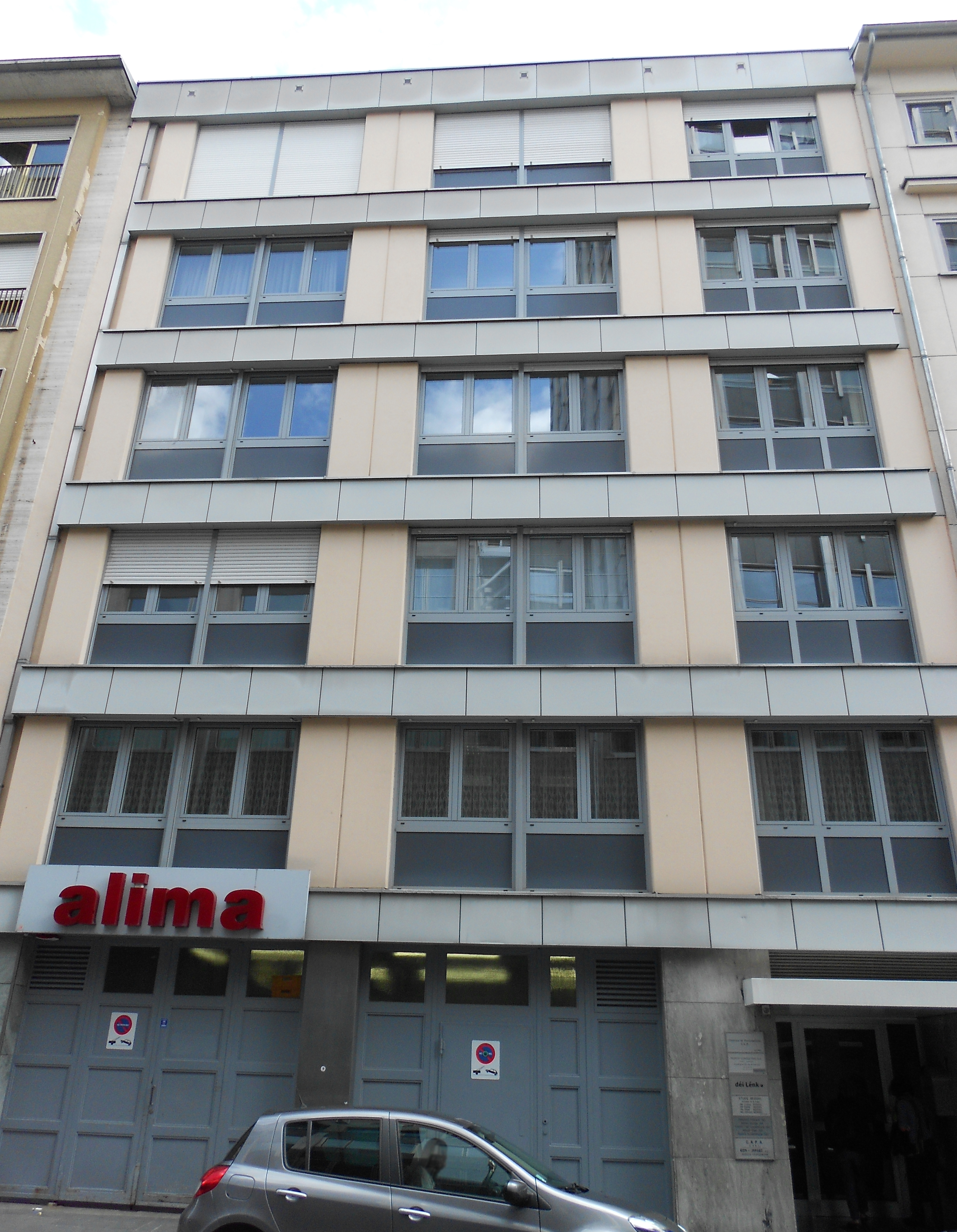 Building in which the Luxembourgish political party Déi Lénk (the Left) has its headquarters (in the rue Aldringen).